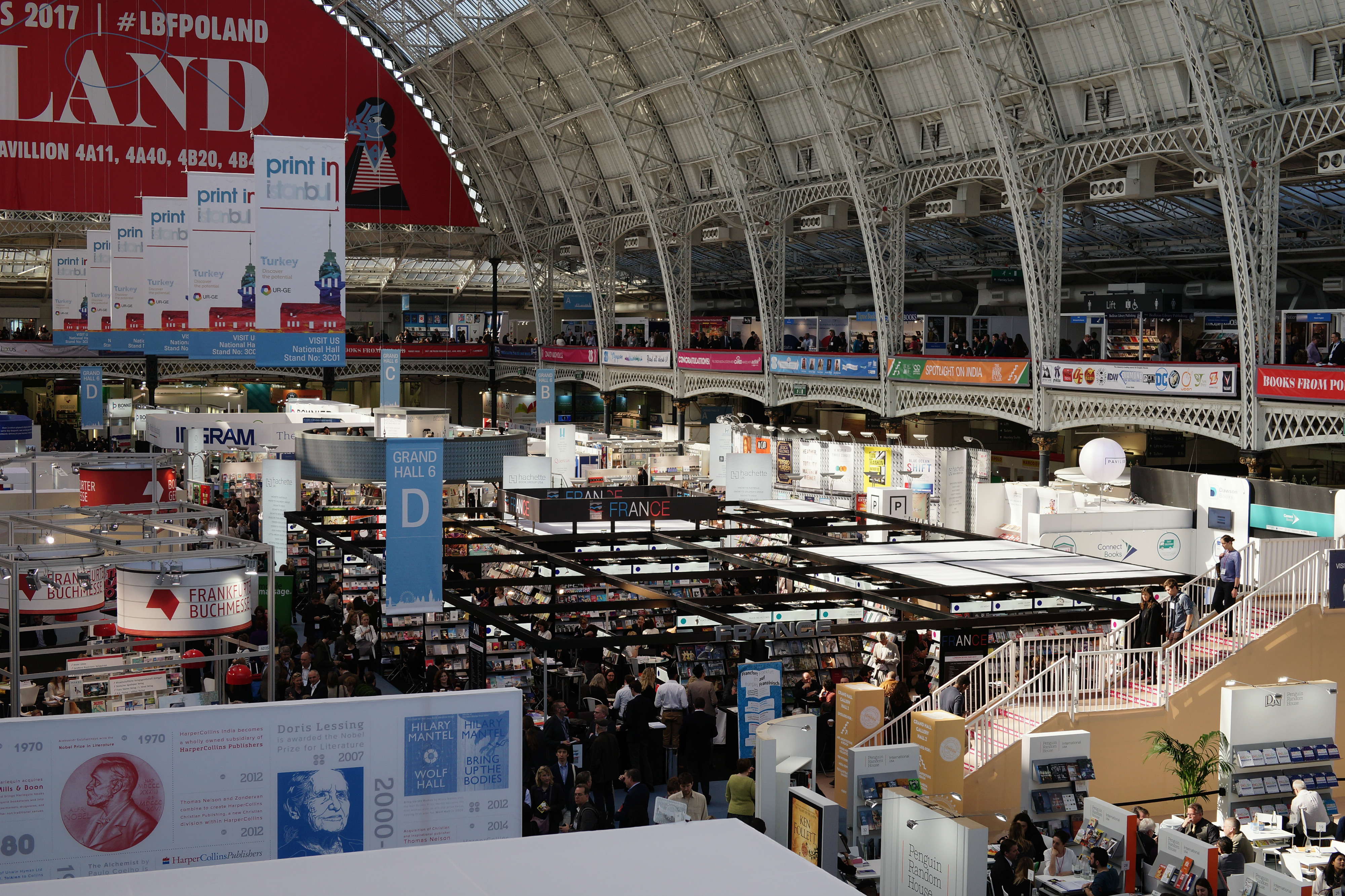 A chance to meet up with my publishers, The Book Guild Ltd.